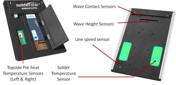 Wave soldering setup and verification fixture example, showing temperature, contact and wave height sensors